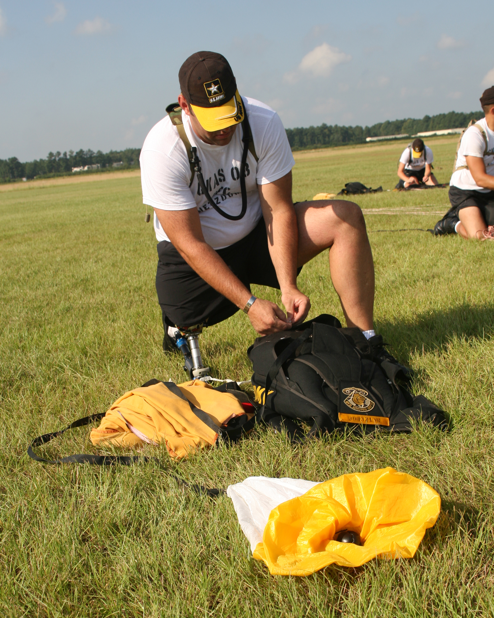 SFC Daniel Metzdorf packs his parachute following Golden Knight Assessment and Selection training at the team's drop zone in Laurinburg, North Carolina. Photo by Donna Dixon. Related Article